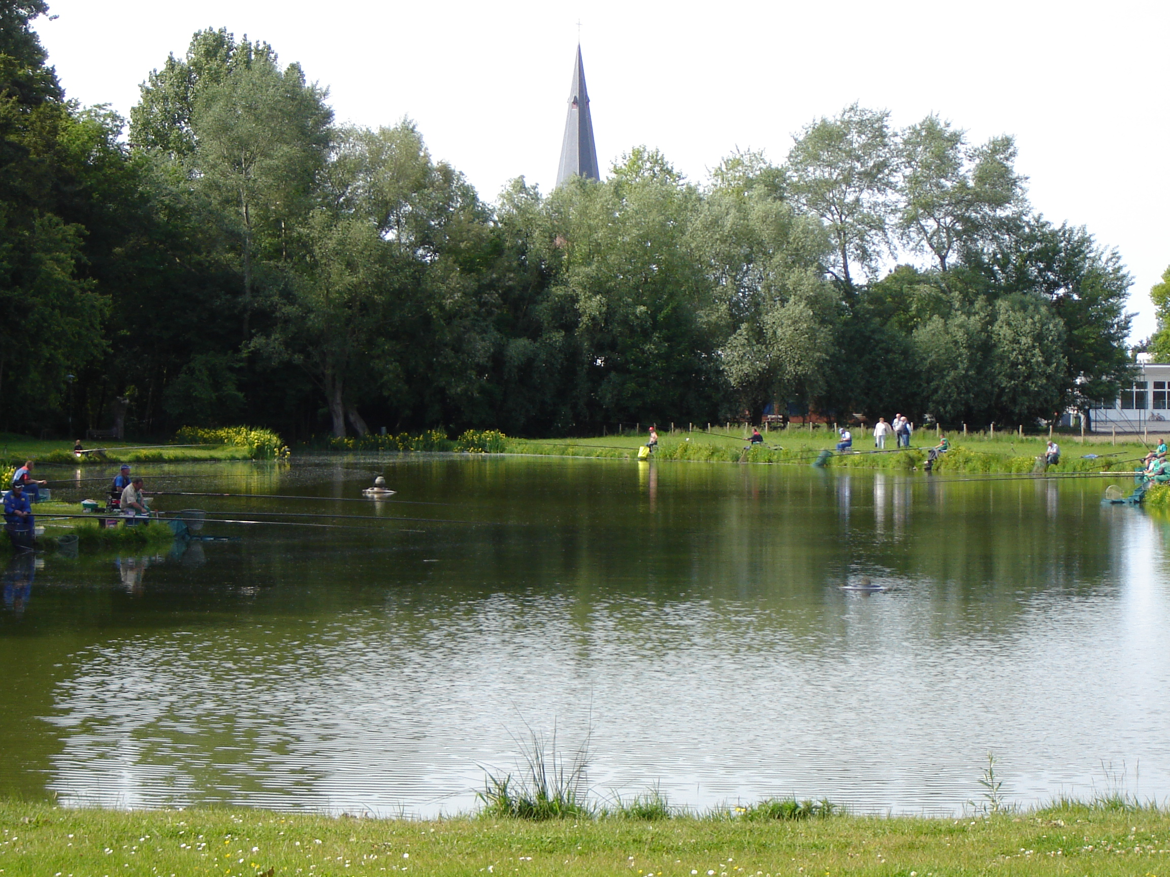 Motepark in town centre of Koekelare, West-Flanders, Belgium. Park + wood + fishpond + Sint Martinus Church